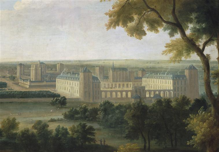 The Château de Vincennes on a painting titled with Le Prince de Conti à la chasse en vue du Château de Vincennes, oil on canvas, musée national du château et des Trianons Versailles